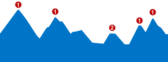 Profile of Stage 17, Tour de France 2009: Bourg-Saint-Maurice - Le Grand-Bornand